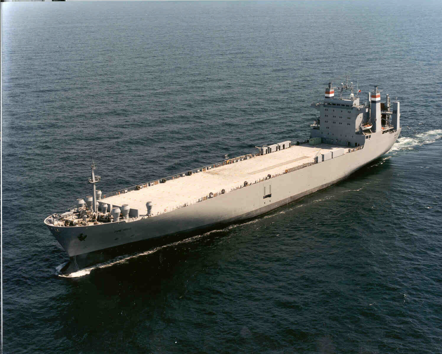 Port side view of MV Cape Texas (T-AKR-112) as sea